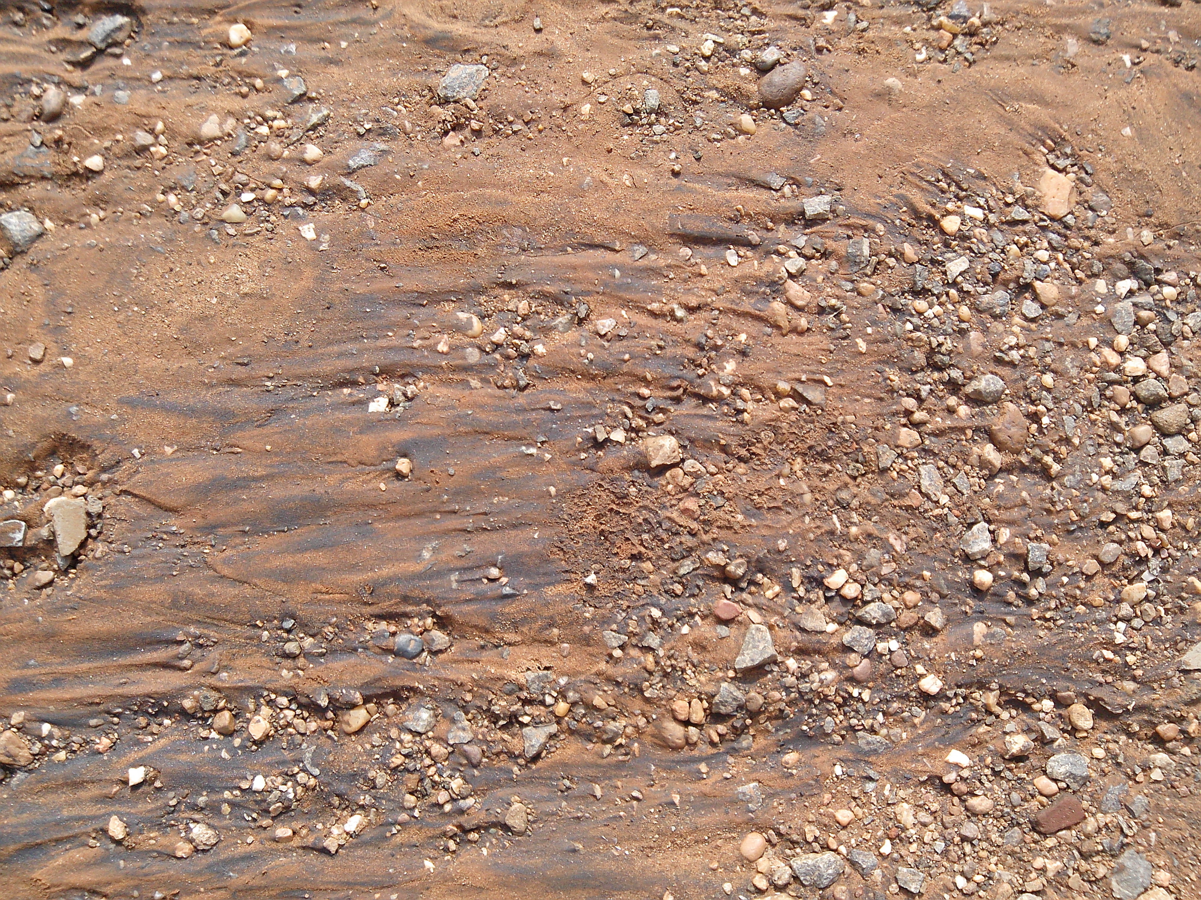 Soil erosion in Salem. Salem district, Tamil Nadu, India.